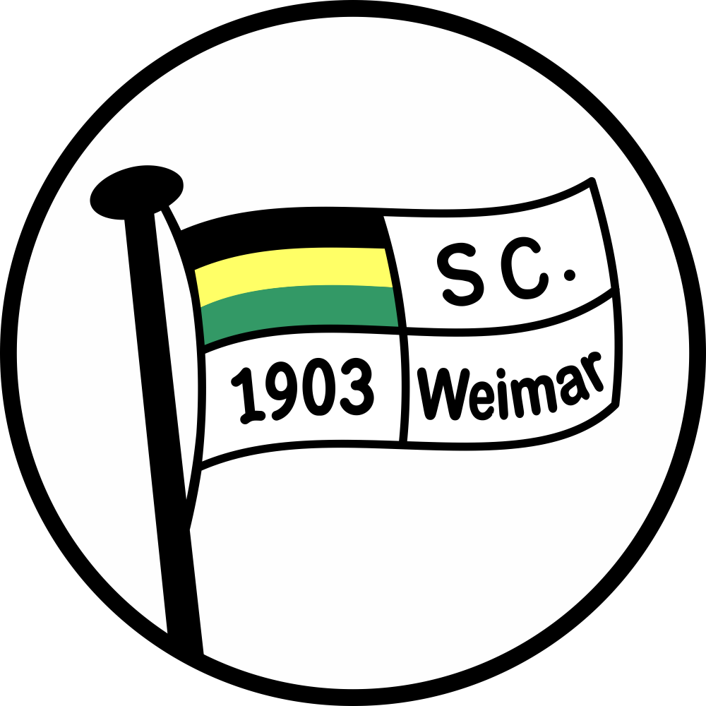 Logo of german sport club SC 1903 Weimar (1903-1945)